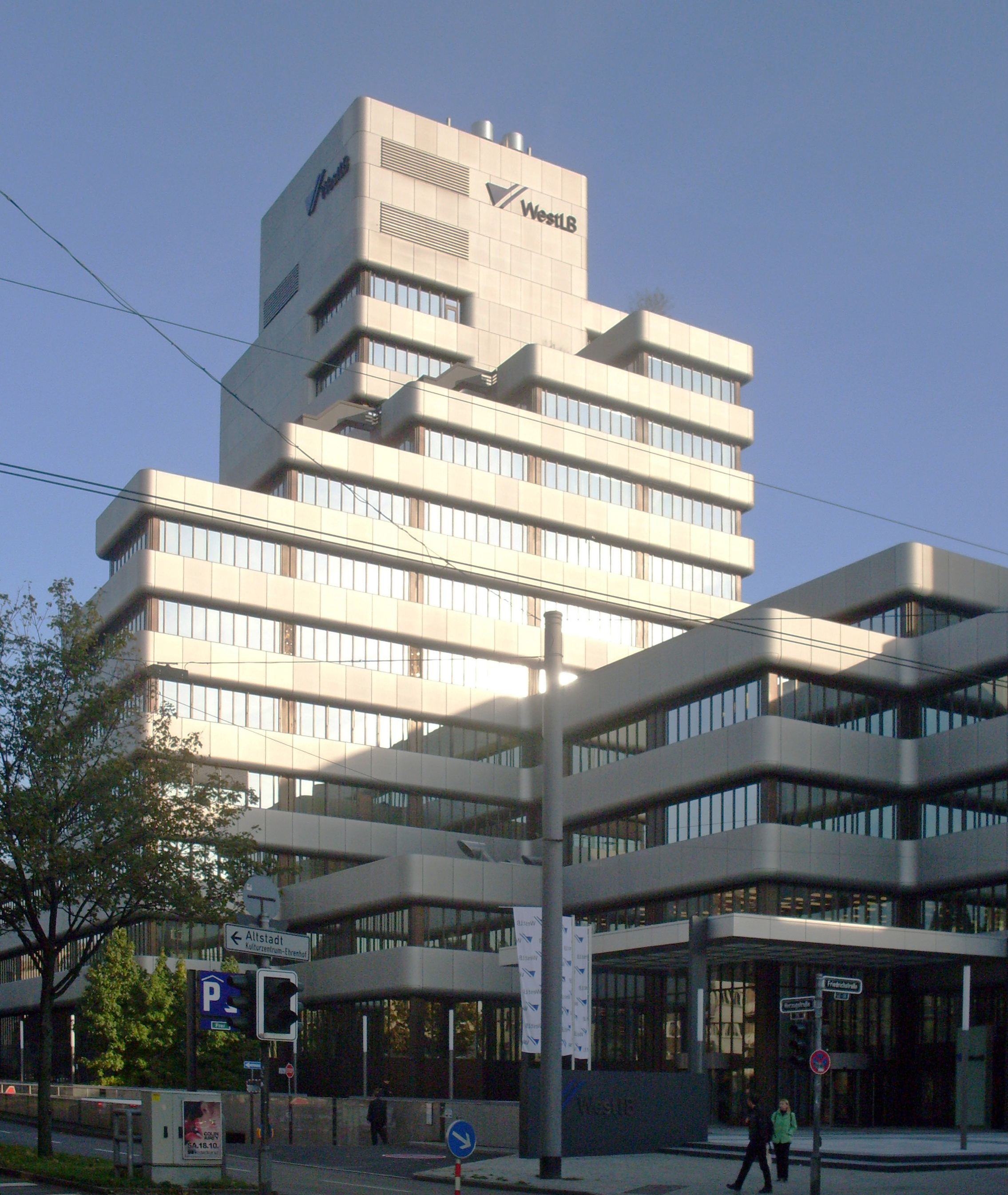 Westdeutsche Landesbank (WestLB) Headquarters in Duesseldorf, Germany